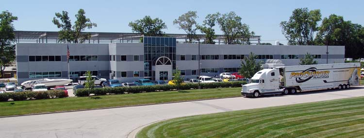 picture of ATI procharger hq